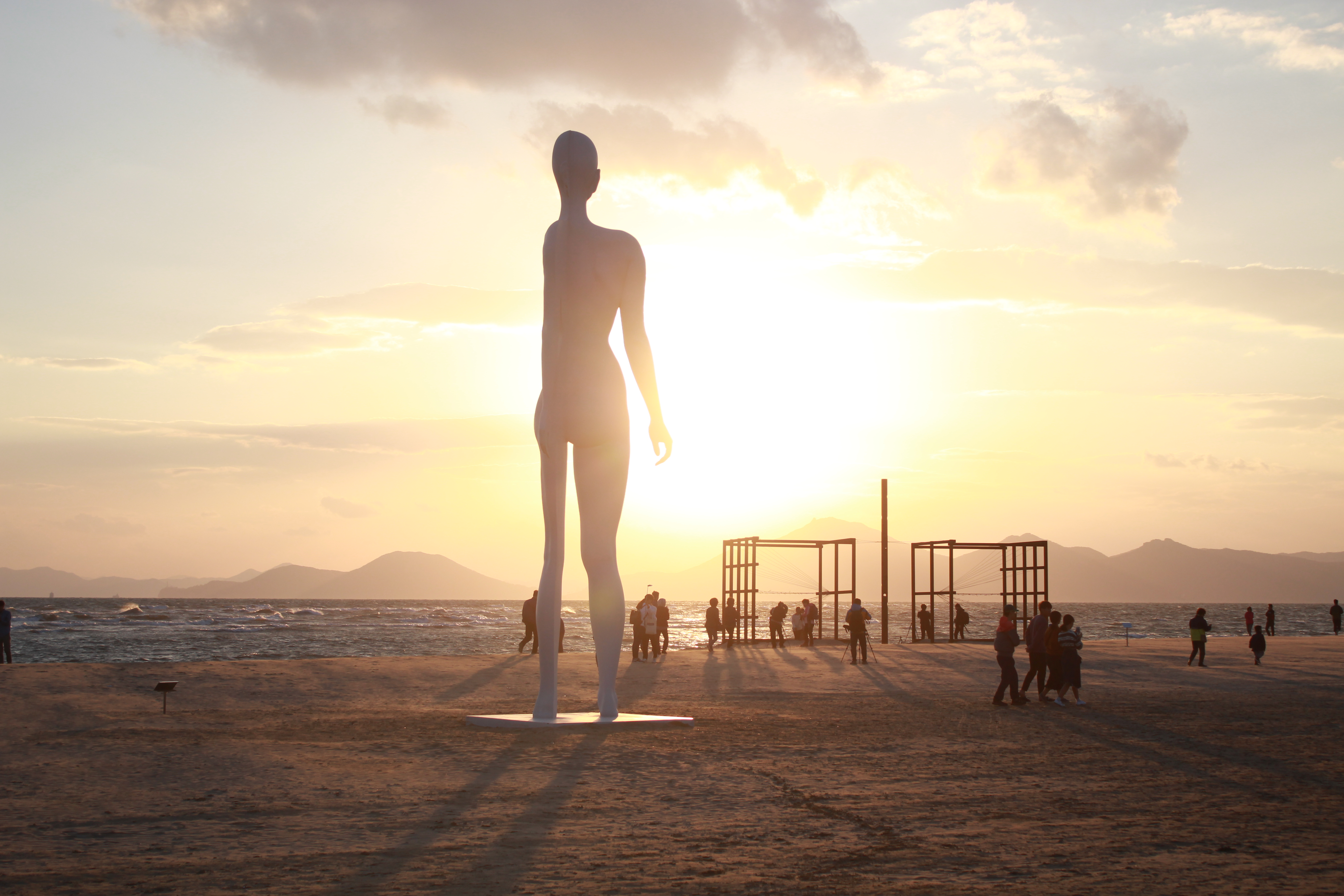 The whole view of Sea Art Festival 2015